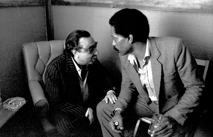 Tete Montoliu & Bobby Hutcherson at Kuumbwa Jazz Center, Santa Cruz, CA, 5/14/1984. Photo by Brian McMillen /